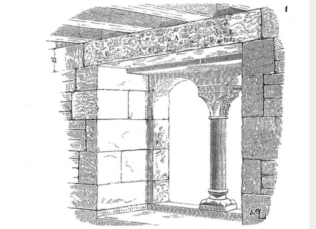 Medieval artificial concrete (Carcassona 1138)